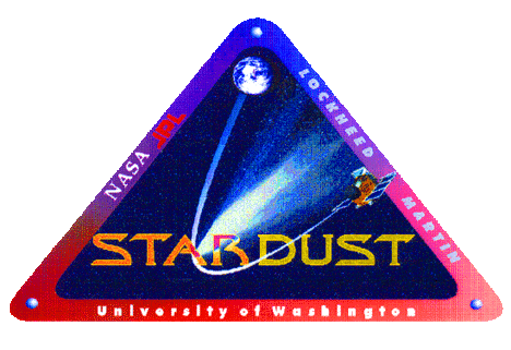 Stardust mission logo.